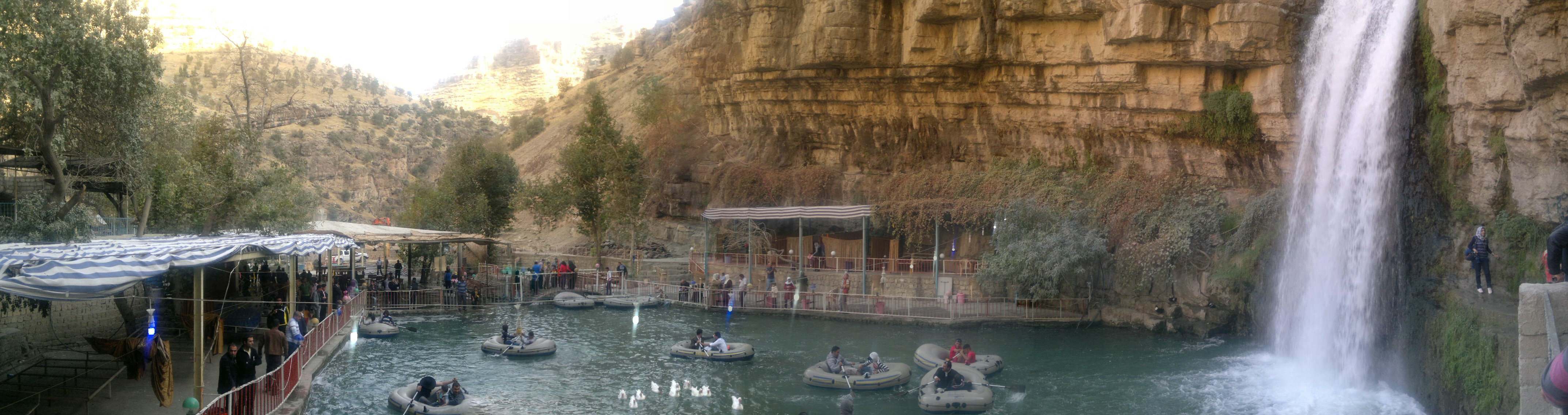 Gali Ali Beg Waterfall, northern Arbil, Iraqi Kurdistan